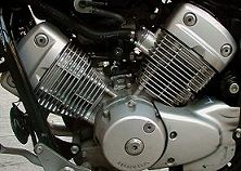 Honda V-twin engine Photograph available under GFDL license. I took this picture myself with a digital camera Olympus C-960. The picture was digitally edited. You do not need my permission to reuse it, but you may not claim that you took the photo yourself.